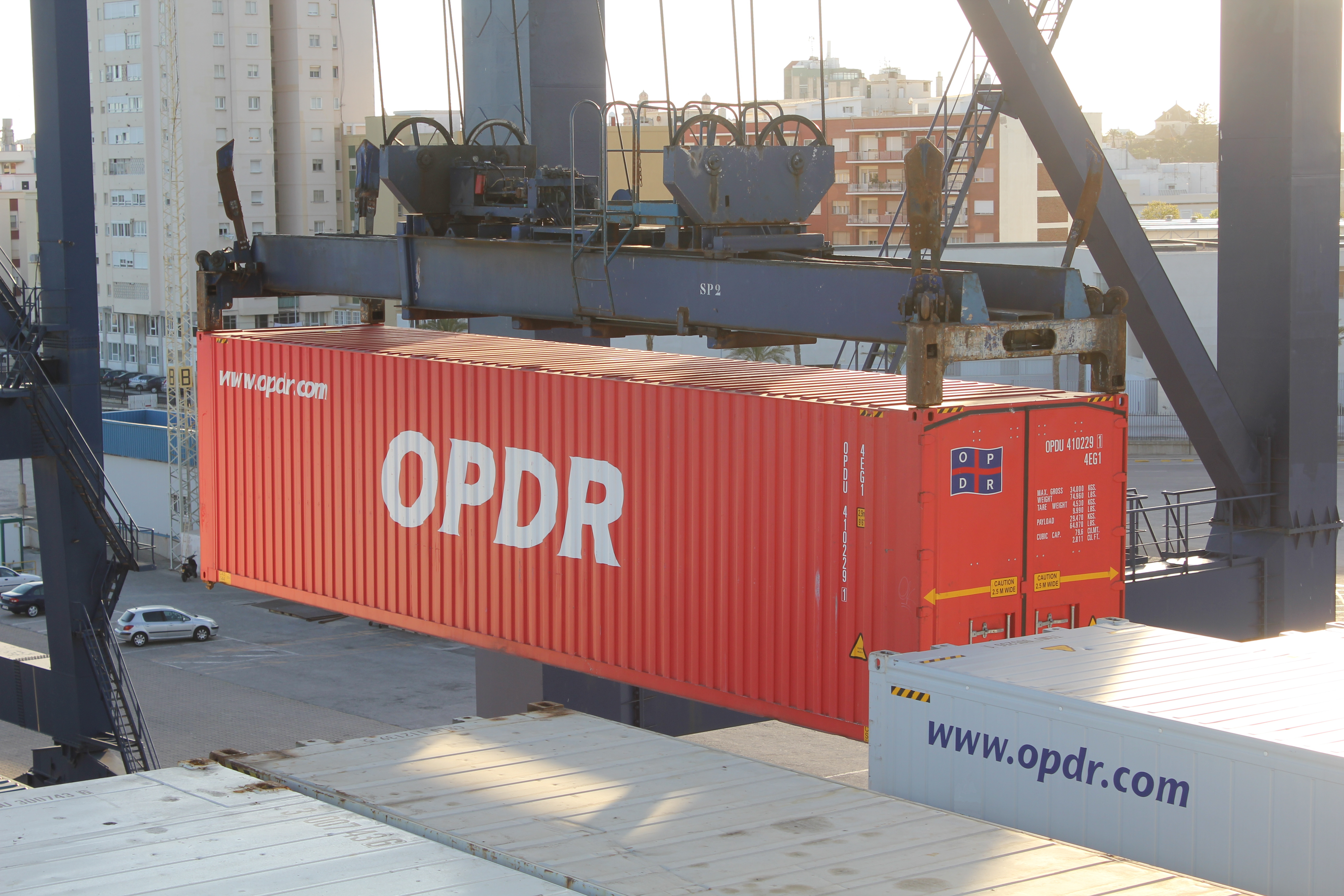 40' OPDR dry container